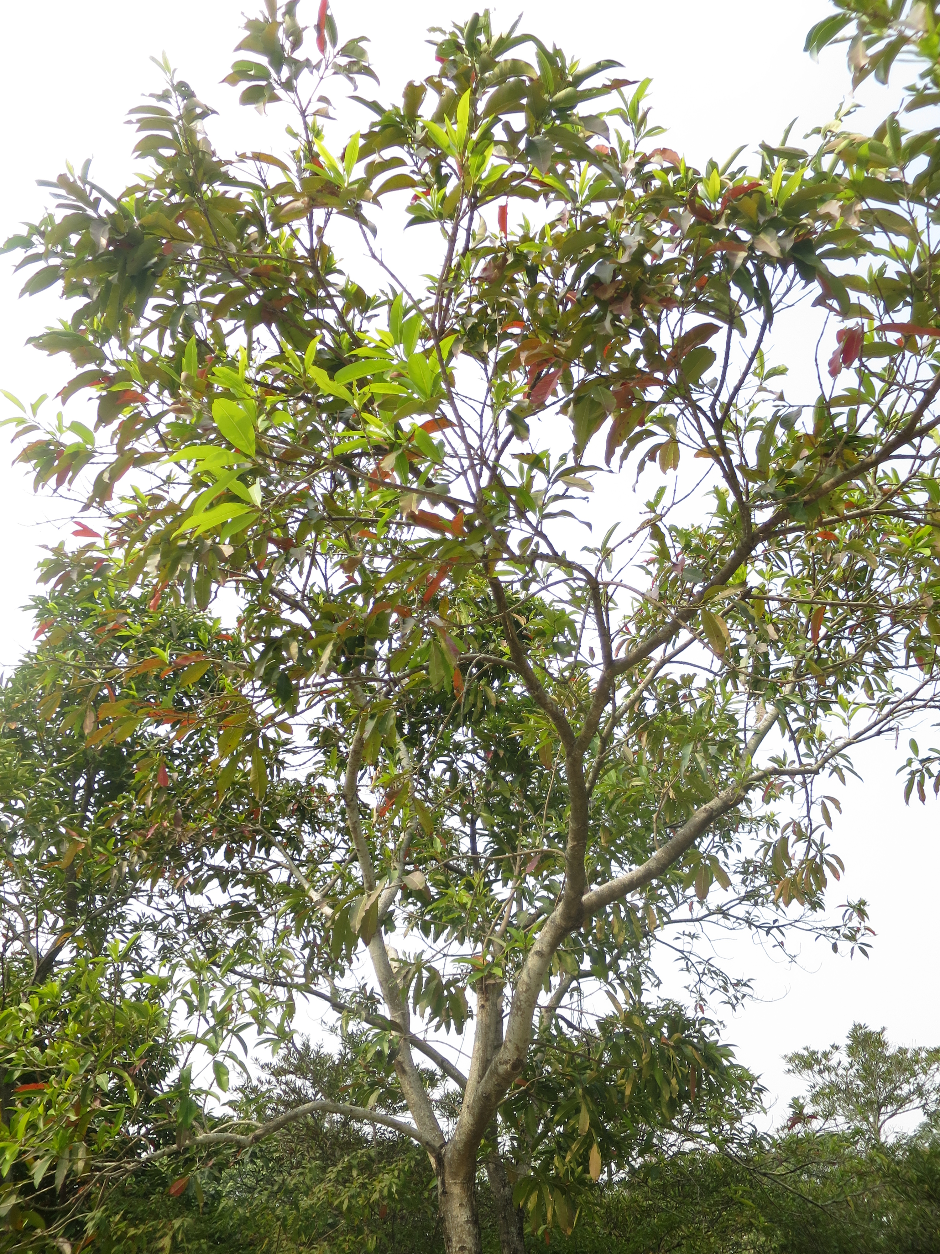 a cultivated Cleistocalyx operculatus in Hong Kong Wetland Park